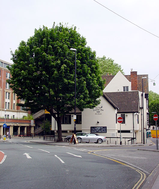 The Olde Hatchet Inn. The Olde Hatchet Inn dates from 1606 and is the oldest licensed pub in Bristol. The wings either side of the inn were damaged in the Blitz and rebuilt.